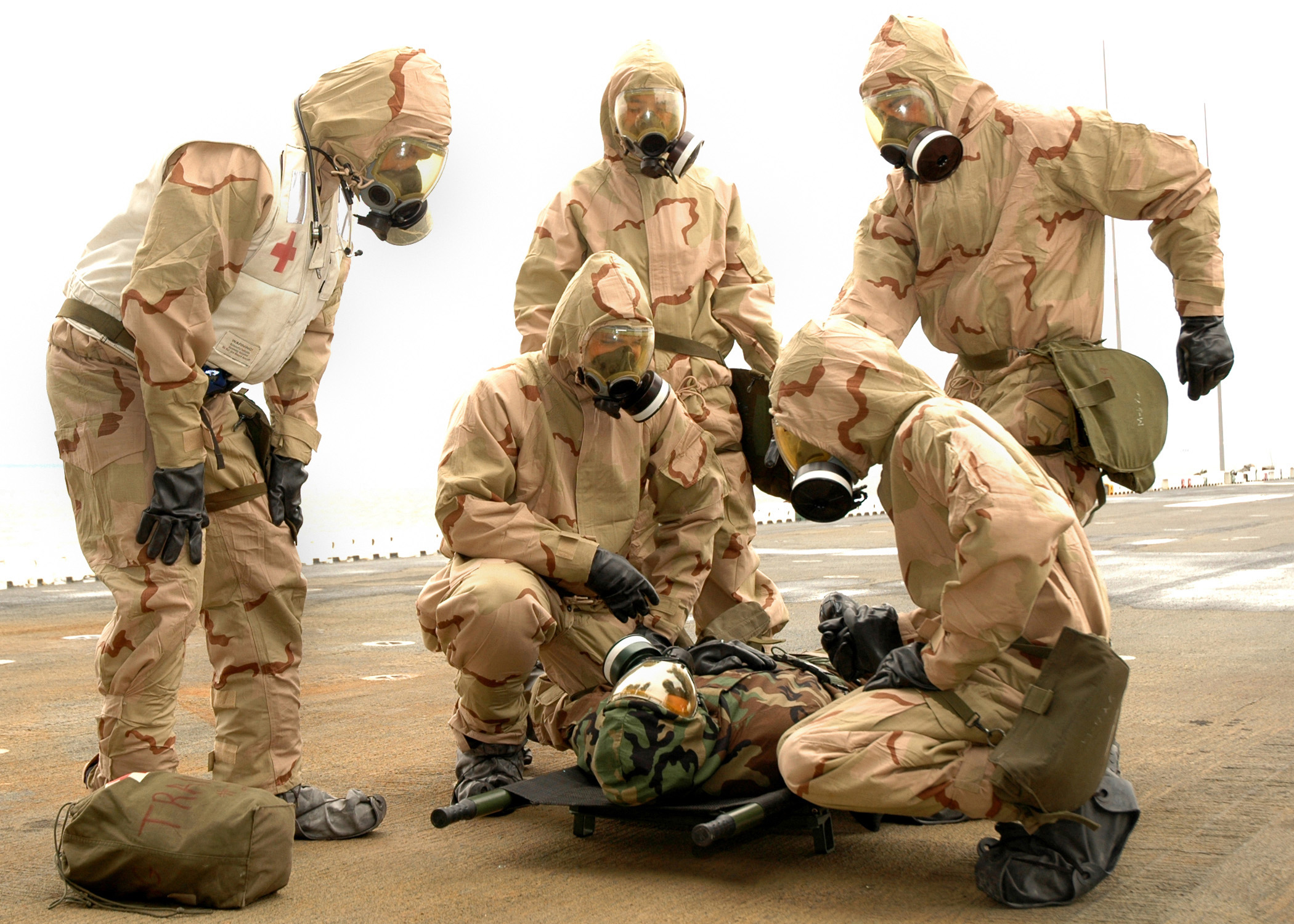 Atlantic Ocean (Feb. 14, 2007) - Naval Sea Systems Command (NAVSEA) personnel create a multimedia production, demonstrating the proper procedure on the use of the Casualty Decontamination Station aboard amphibious assault ship USS Nassau (LHA 4). Nassau Sailors assigned to the damage control/medical team provided the talent for the NAVSEA project support team. The video will be posted in the Surface Warfare Officer School (SWOS) and Damage Control Assistant Senior Enlisted (DCASE) for training on Navy Knowledge Online. U.S. Navy photo by Airman Michael N. Minkler (RELEASED)